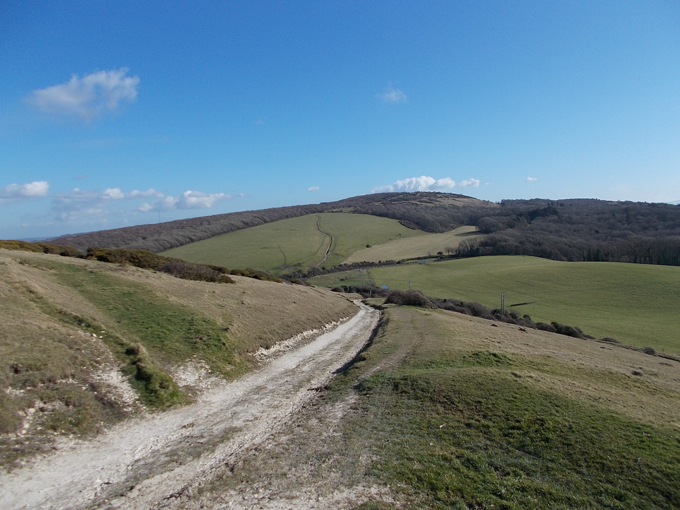 Brook Down, Isle of Wight, UK; on the Tennyson Trail; view east to Mottistone Down